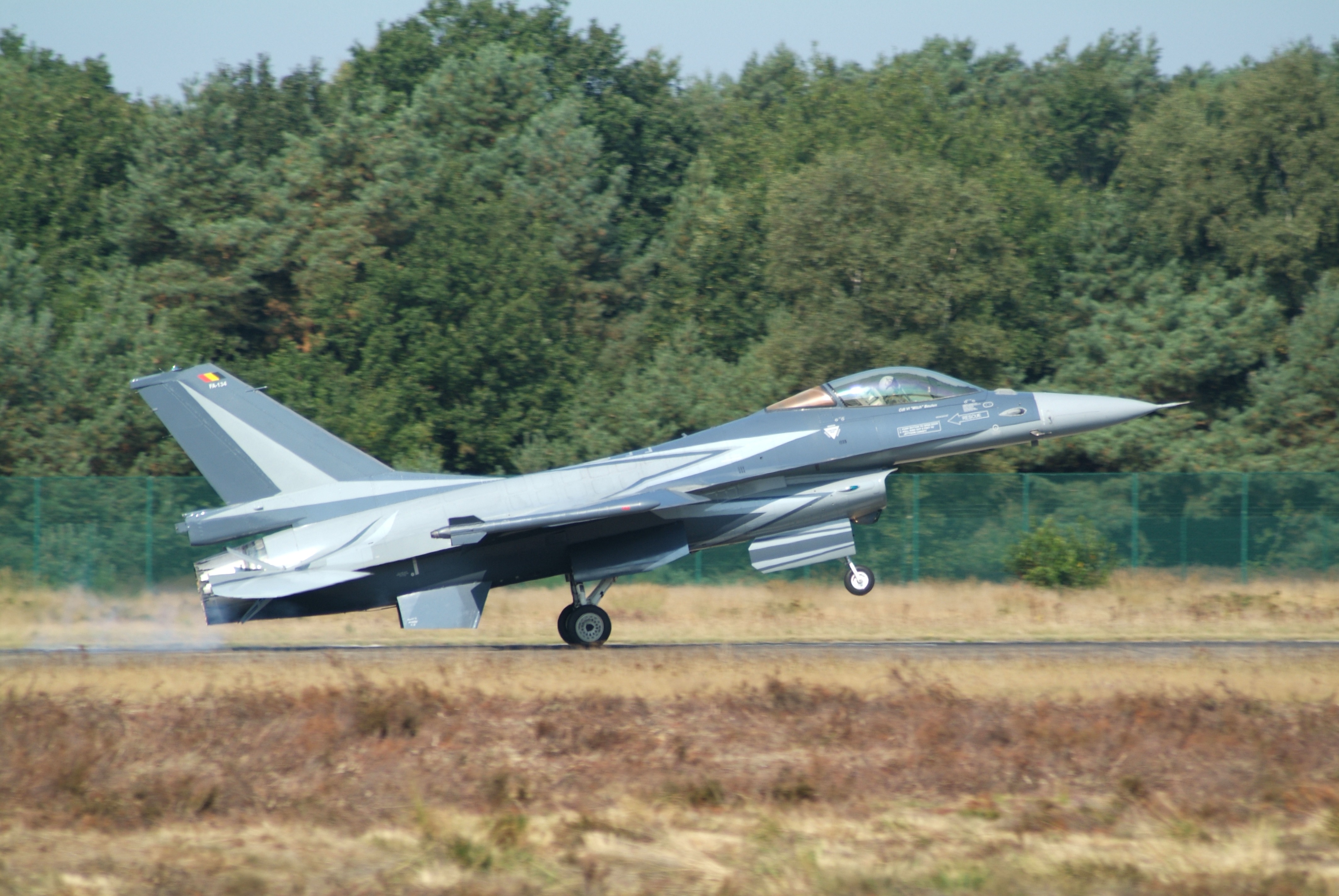 Opinion seems to be divided over this year's scheme; I must say I rather like it.